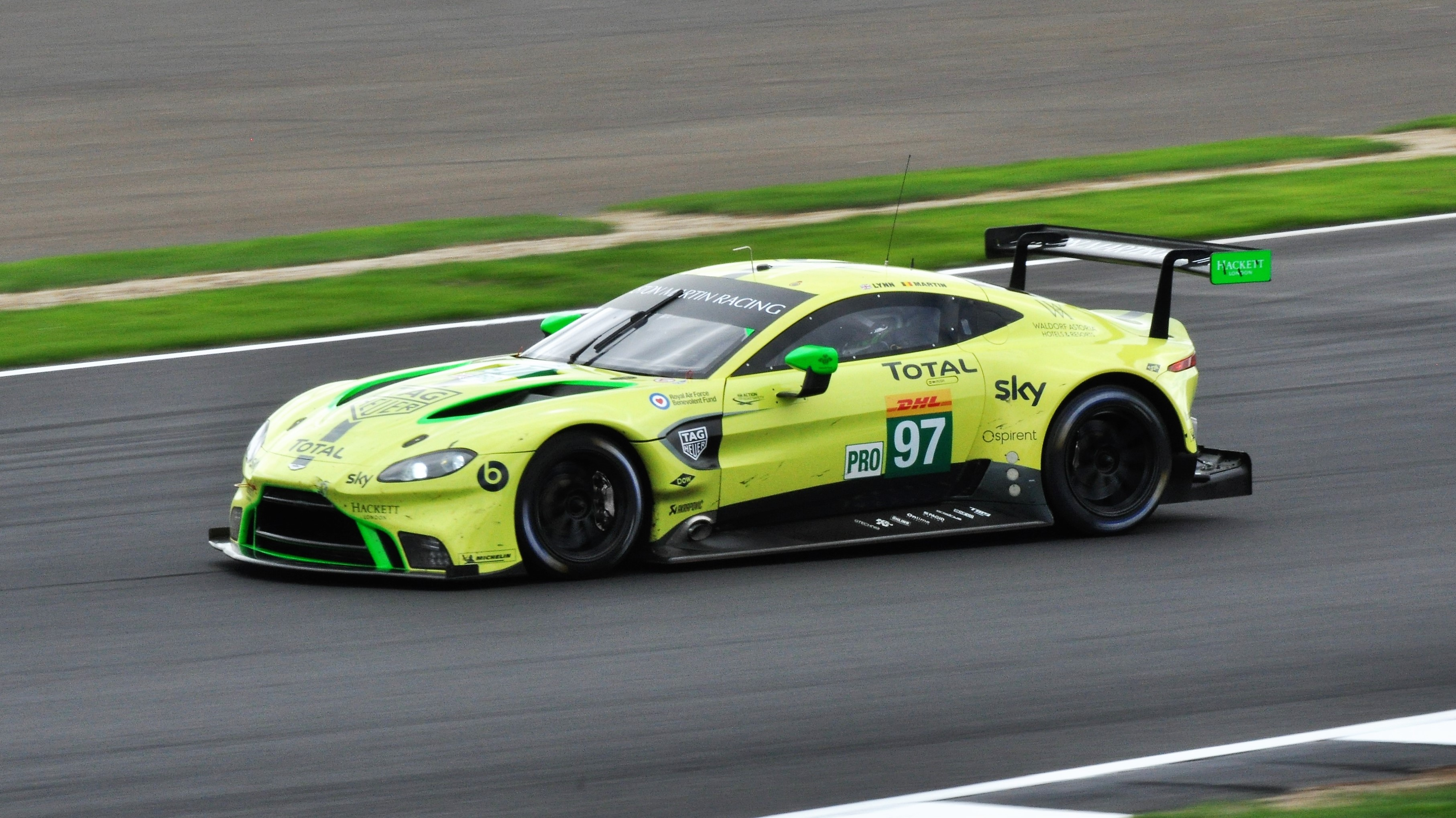 Belgian driver Maxime Martin in the number 97 Aston Martin entry, enters Village corner during the 2018 6 Hours of Silverstone race. Martin and his co-driver, British driver Alex Lynn, finished just off the podium in 4th place in the LMGTE Pro class.